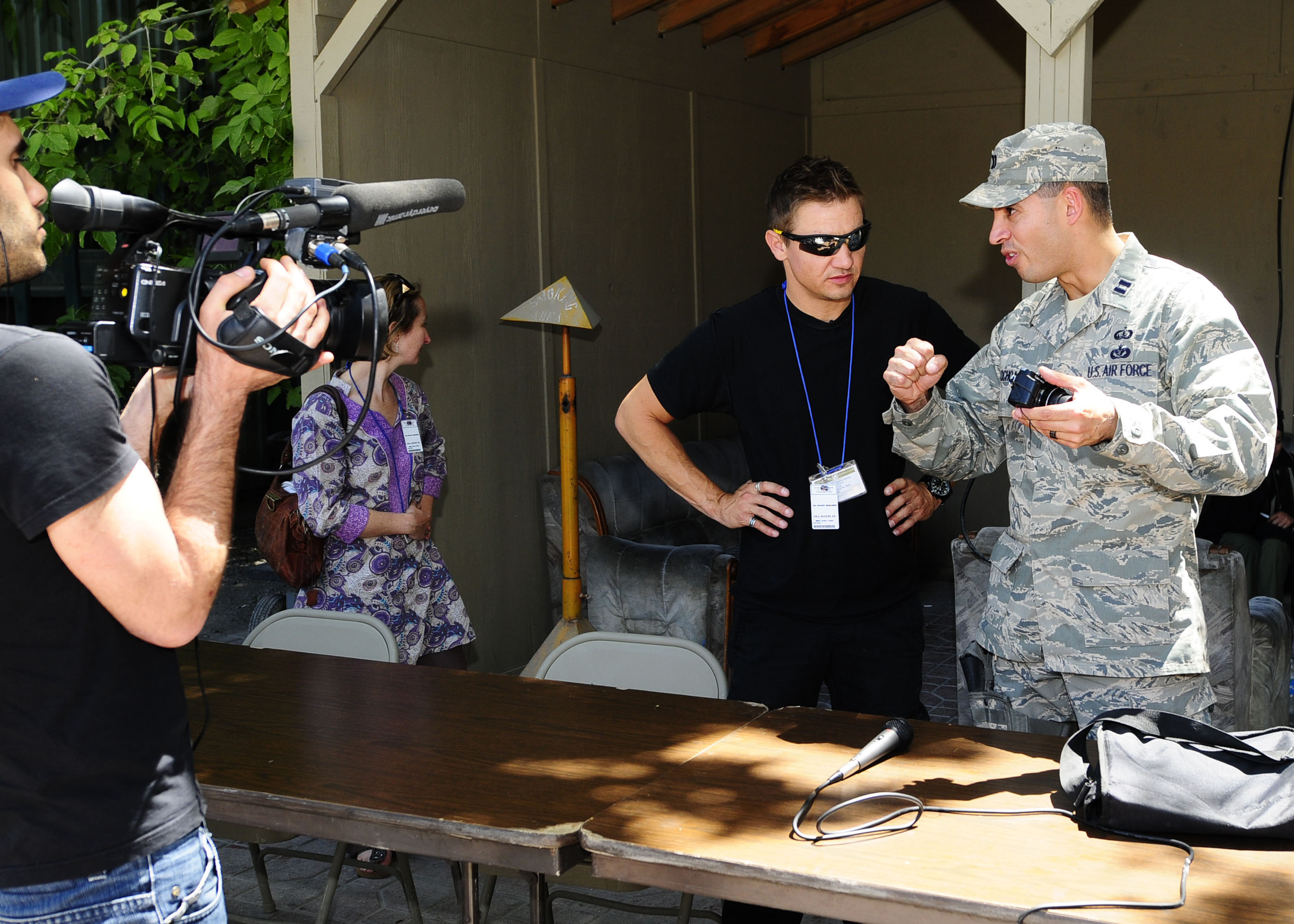 100628-N-9247P-036 - Academy Award Nominee Jeremy Renner, star of the film 'Hurt Locker', talks with servicemembers on Camp Eggers and signs autographs during his visit to Afghanistan. Renner's visit was possible because of the Advocacy and Information Unit of the United Nations Mine Action Services. (U.S. Navy Photo by Mass Communication Specialist 3rd Class Kirk Putnam/RELEASED)